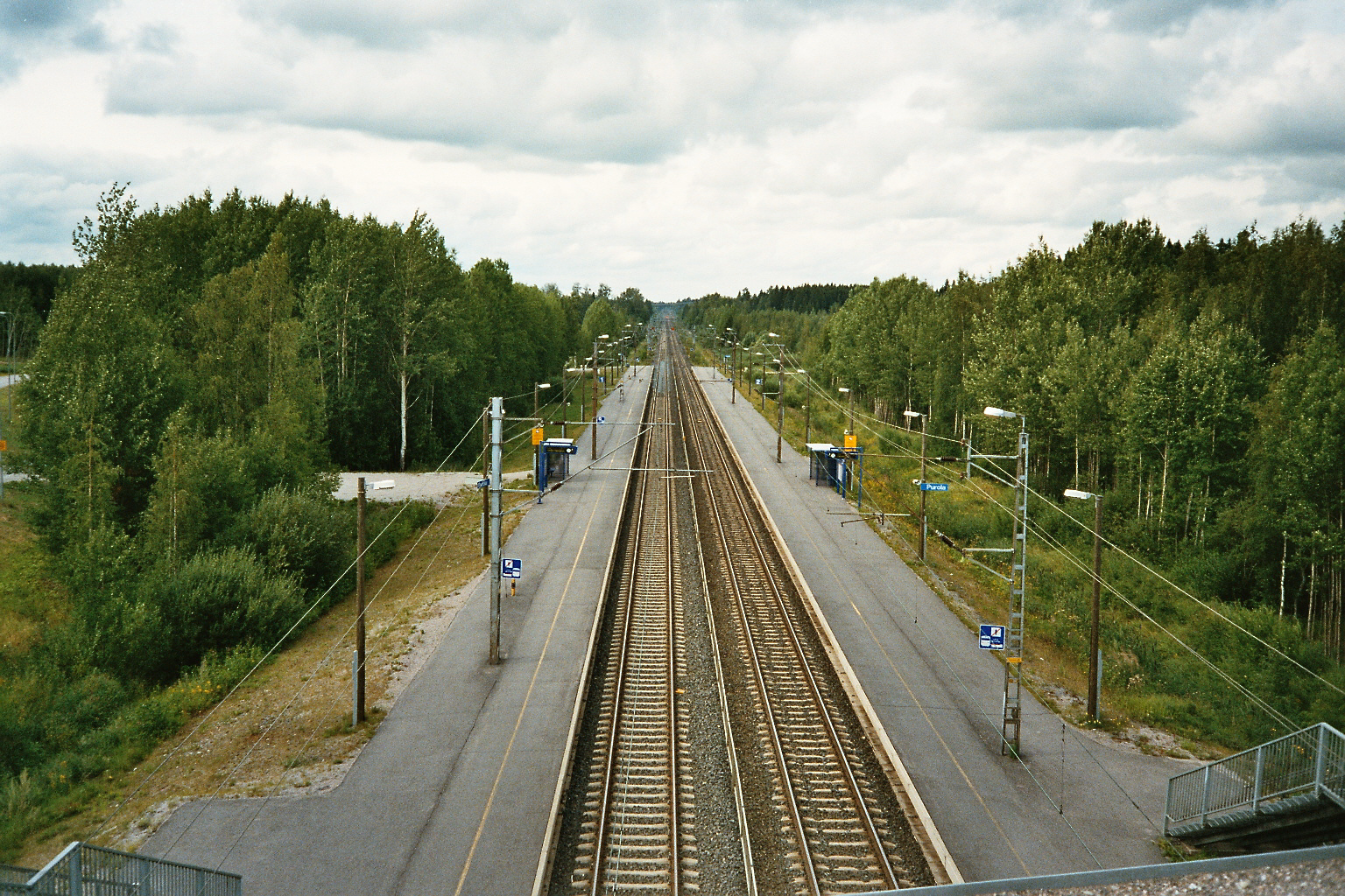 Purola railway station in Järvenpää, Finland